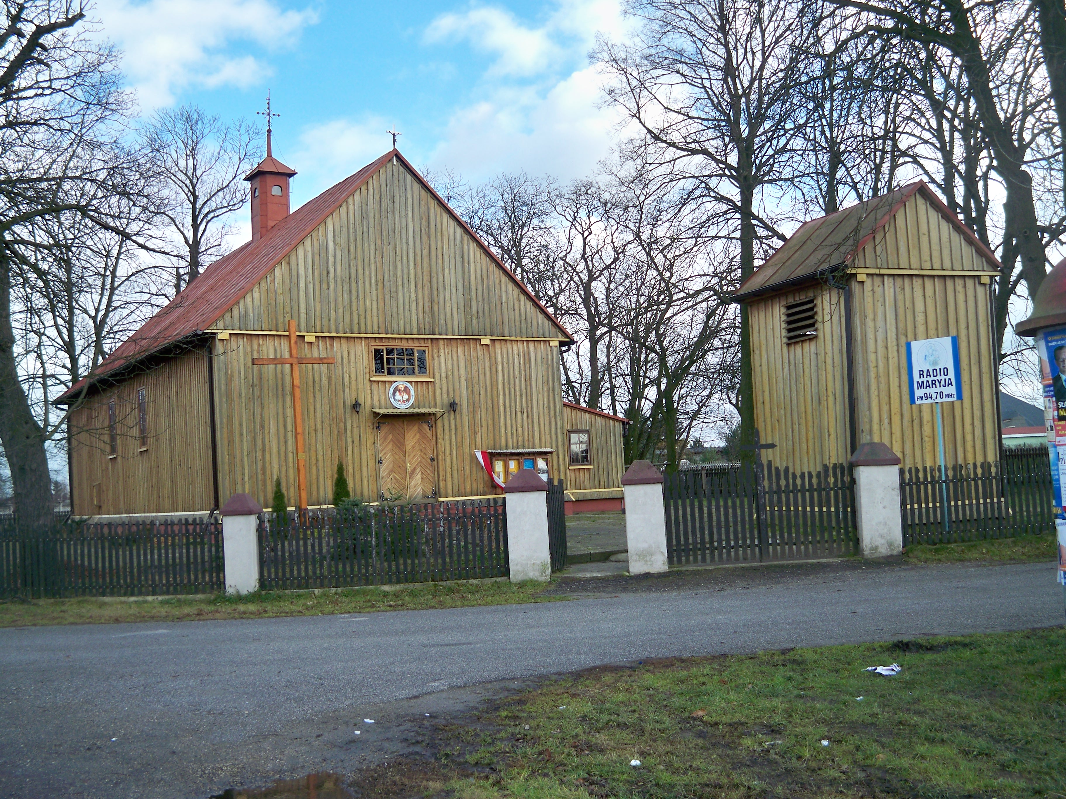 My photo